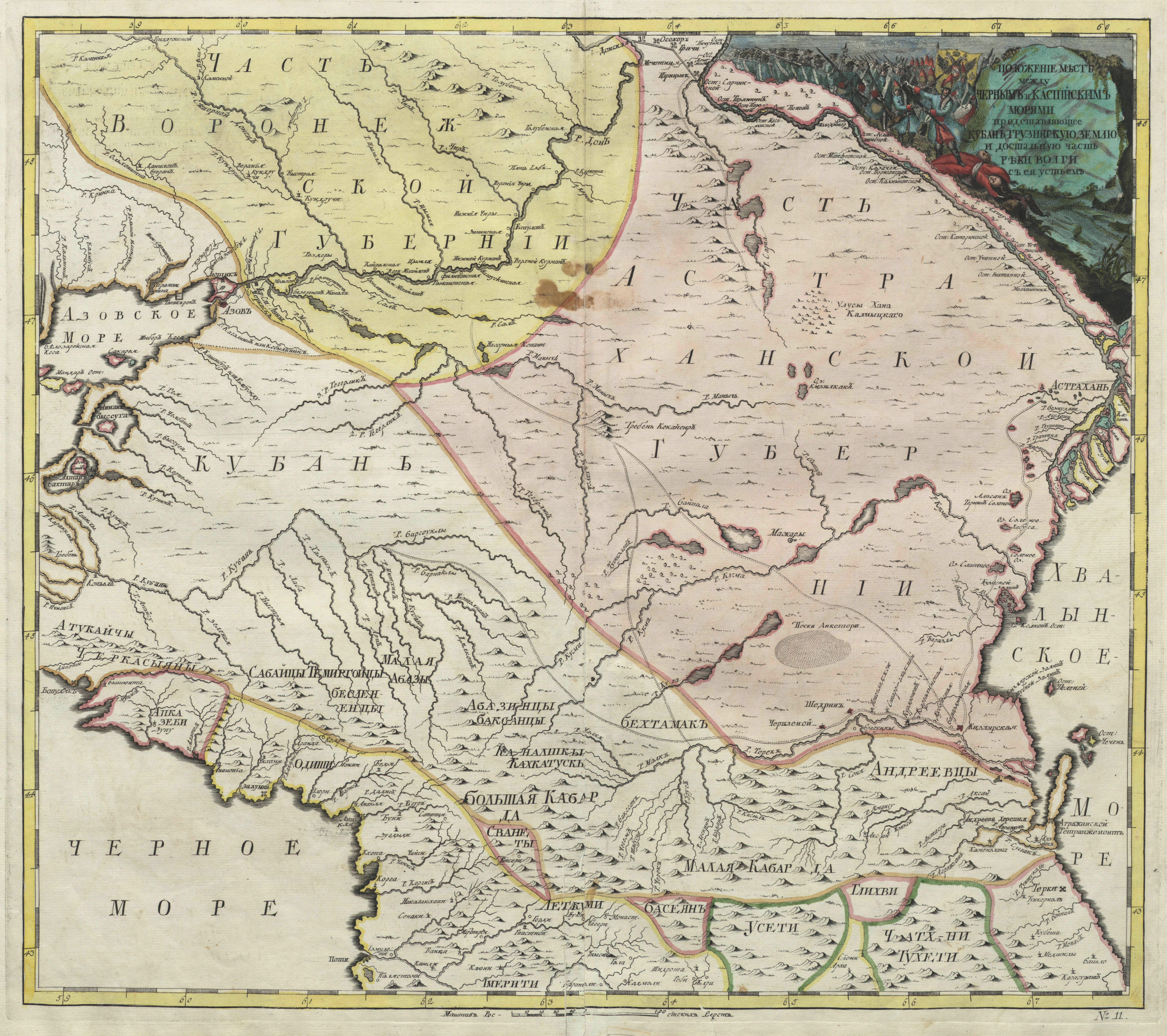 First official geographic atlas of the Russian Empire (1745). Map of places beetwen Black Sea and Caspian Sea, include Kuban, Georgia and mouth of Volga river.